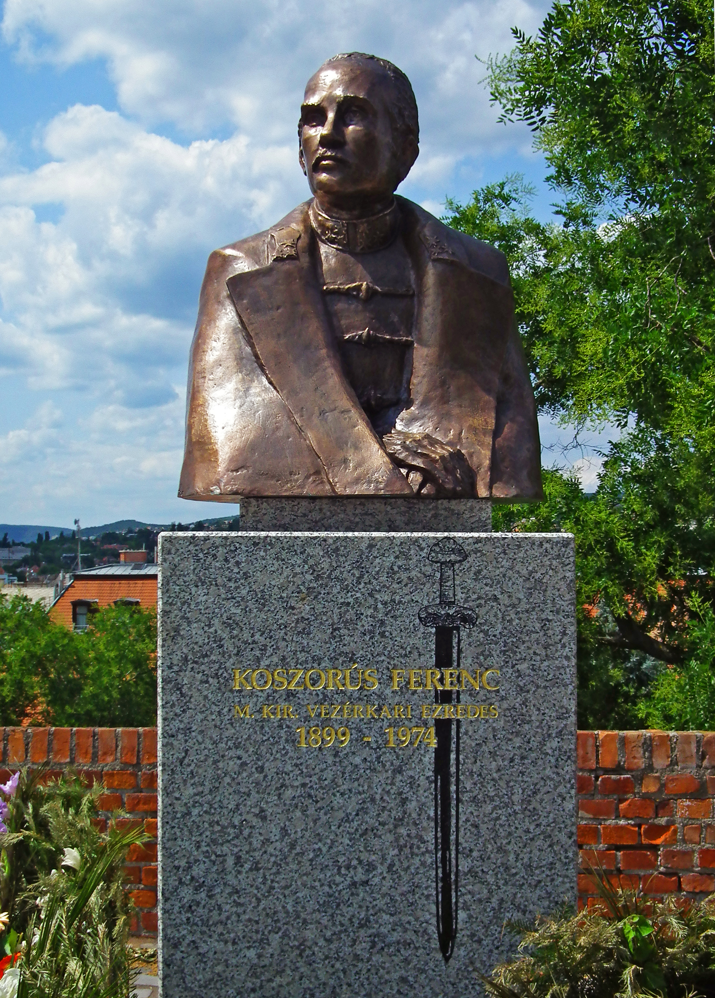 Statue of Ferenc Koszorús, WWII Hero of Hungary, Buda Castle, Budapest